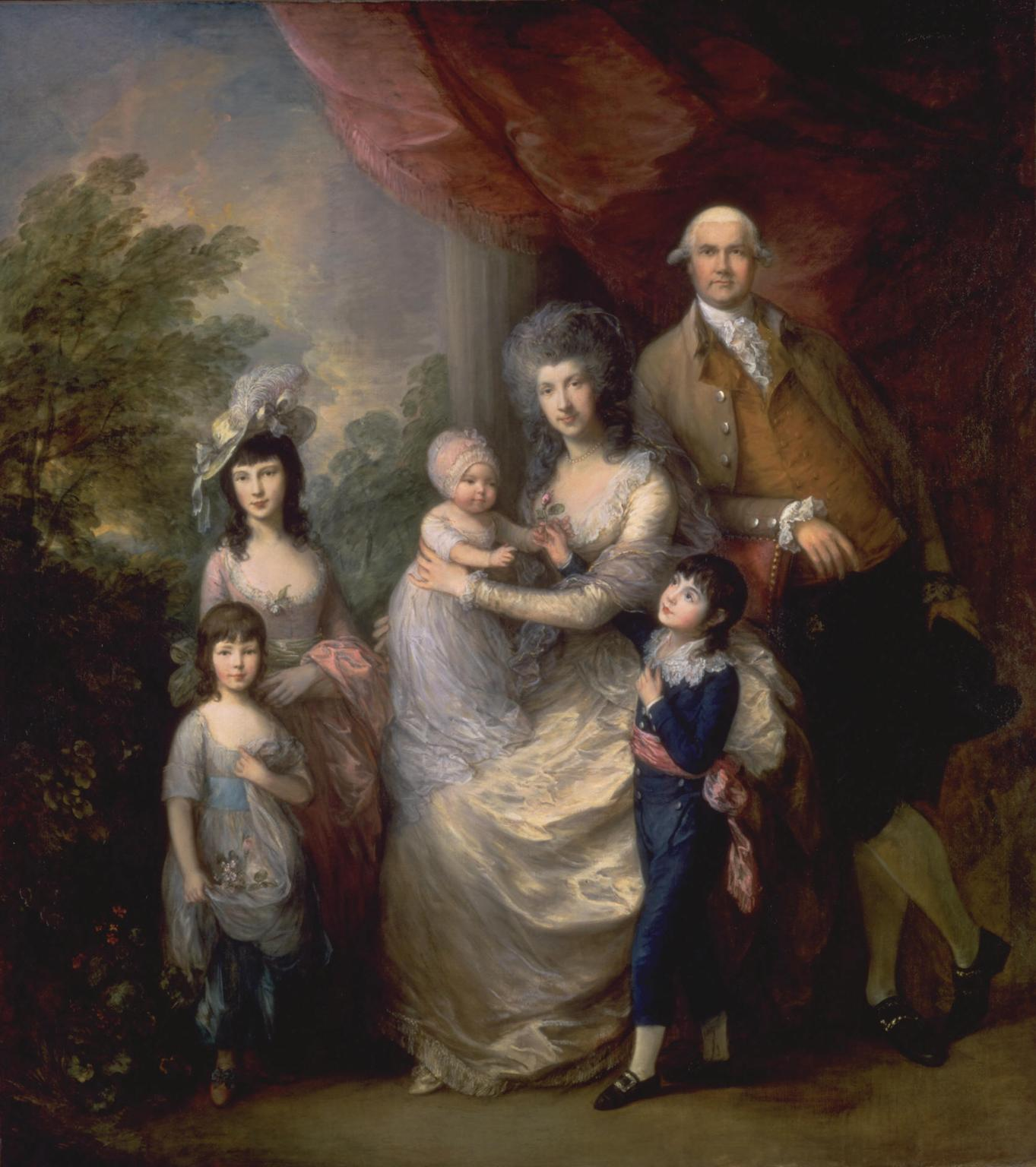 James Baillie and family, in Tate Britain, (100 x 90 inches), circa 1784, by Thomas Gainsborough, RA.